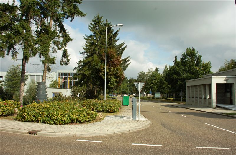 The new gate: With the more sophisticated array of force protection measures left out of this photo, this is the entrance to the headquarters of USAG Schinnen today.